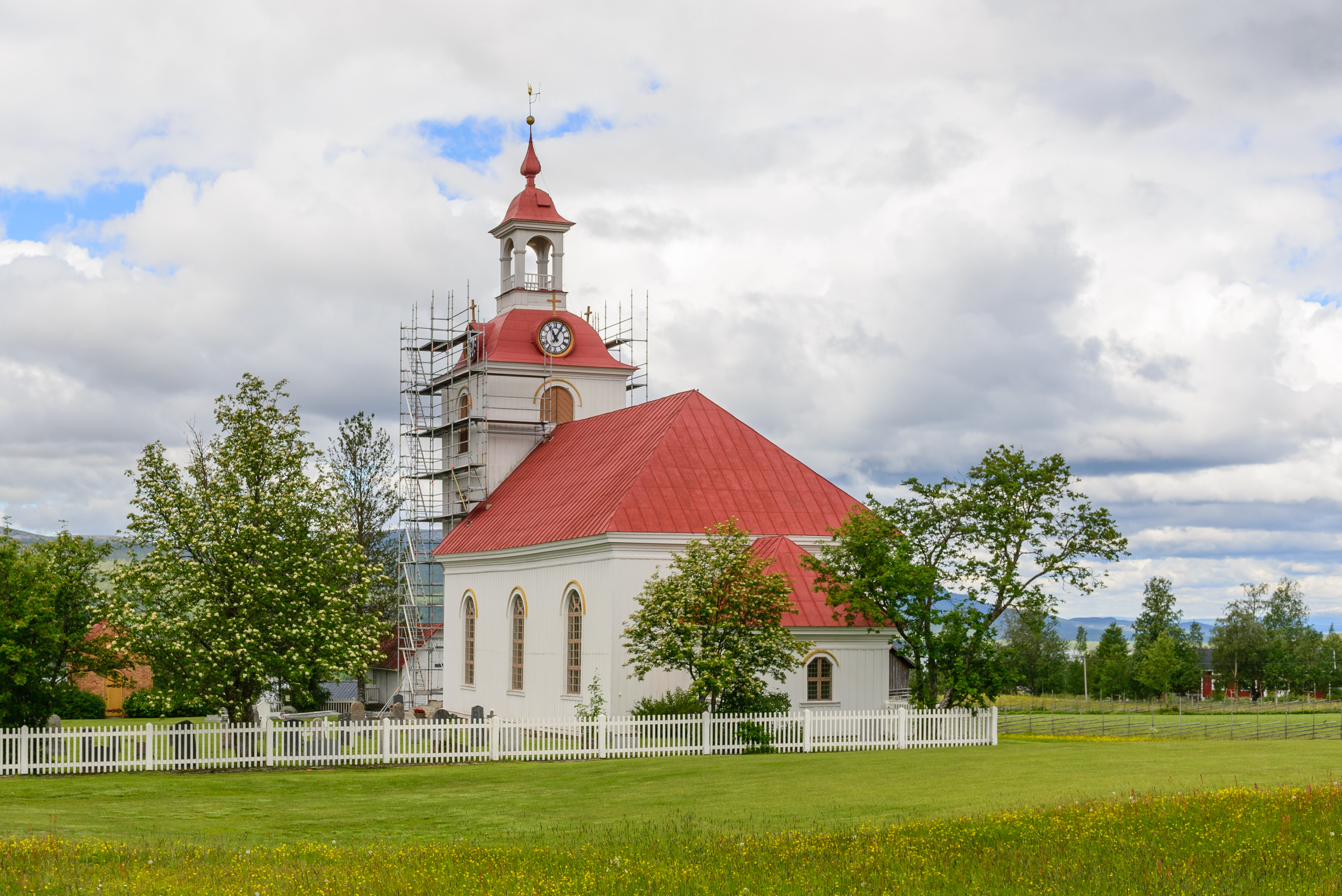 Klövsjö kyrka (church) in Klövsjö, a villages in Berg municipality, Härjedalen, Sweden.